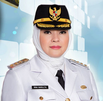 Pandeglang Regent and Deputy Regent 2016-2021, Irna Narulita and Tanto Warsono Arban